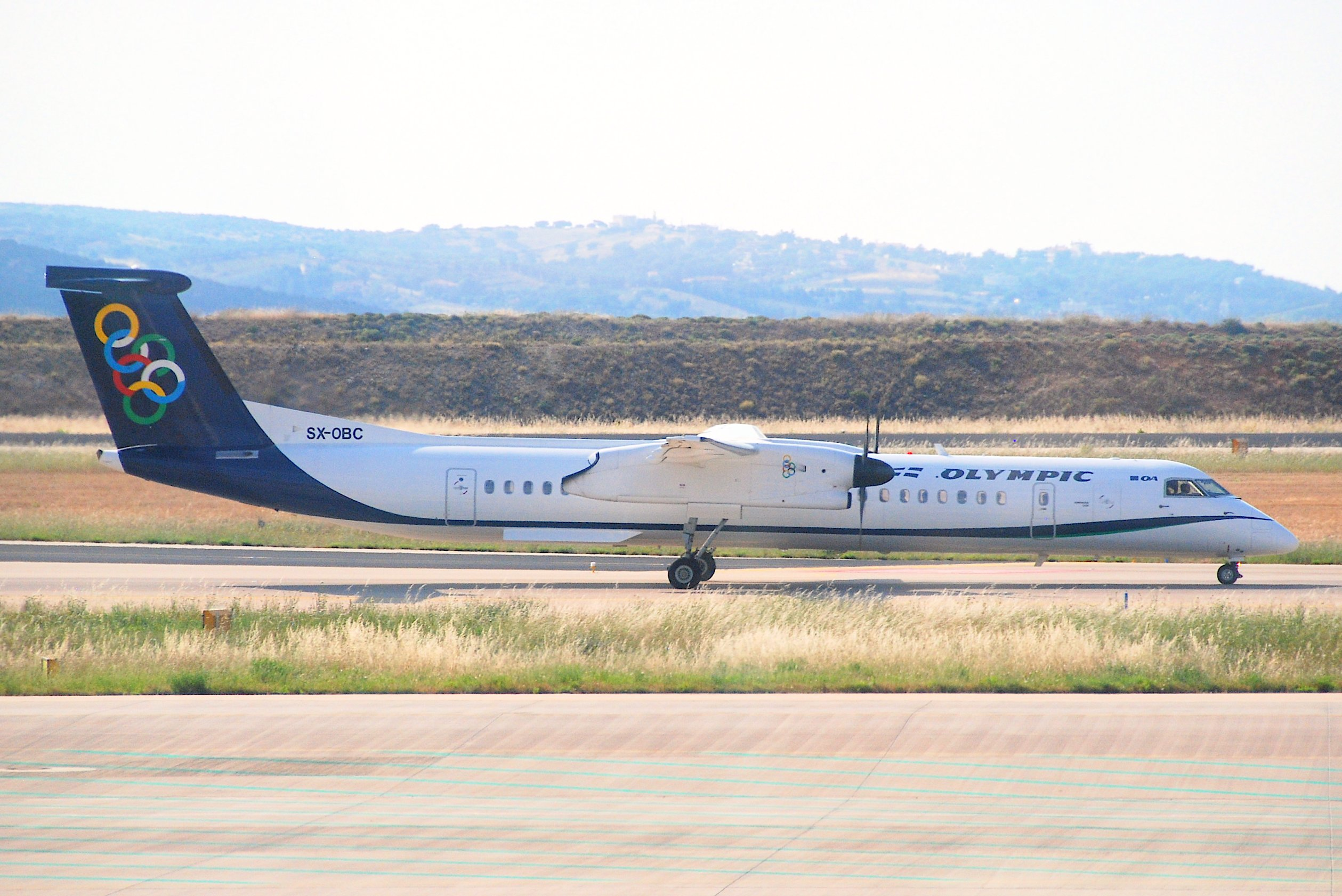 Olympic Air DHC-8-400 Dash 8; SX-OBC@ATH;12.06.2011/600ai